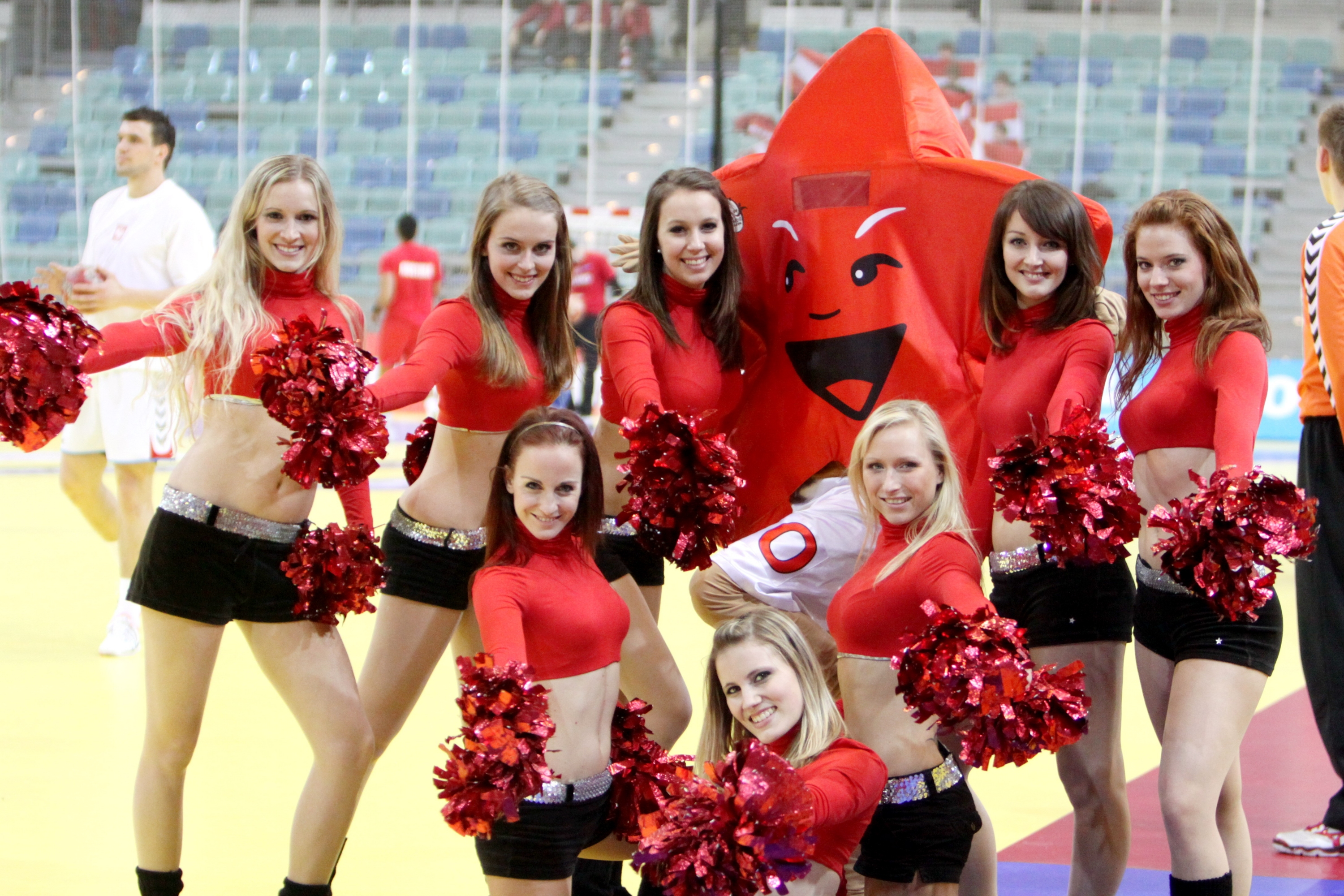 Cheerleaders of the 2010 European Men's Handball Championship